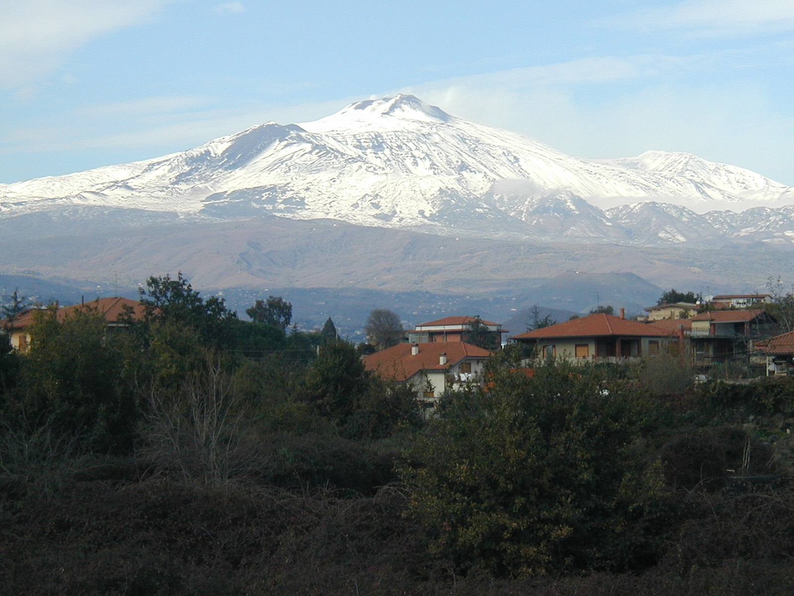 Etna Volcano with snow. Taken in Dicember 2001, from San Gregorio Di Catania.